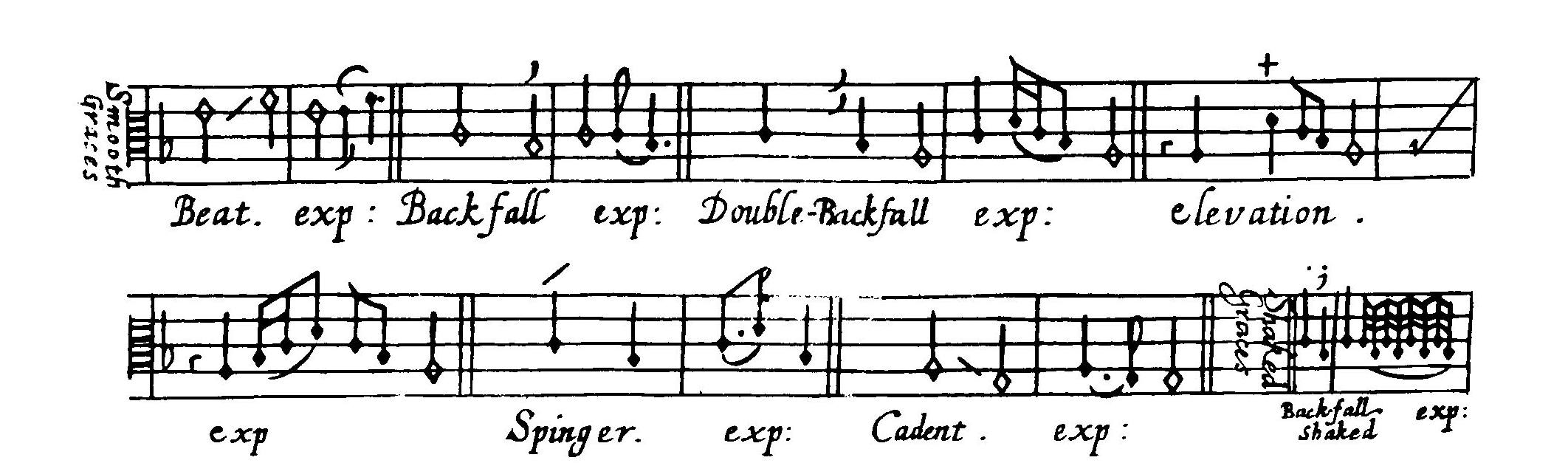 Portion of the graces and their explanations, from p. 24 of Chelys, or The Division Violist (1665) by Christopher Simpson